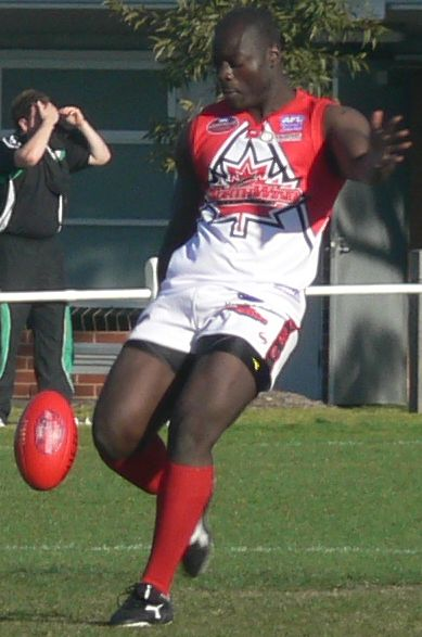 Canada's ruckman Manny Matata kicking the ball